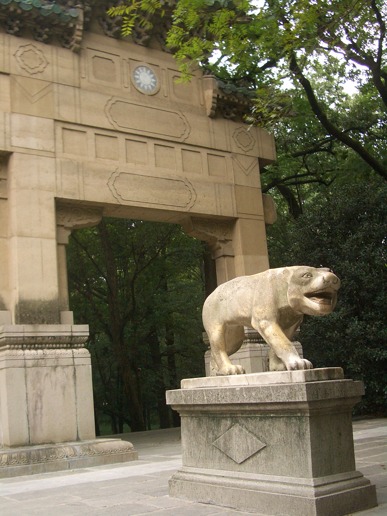 One of the two stone tiger ("Shi Hu" 一对石虎) statues near the entry to Entering Linggu Scenic Area. The plaque nearby describes the gate and the statues as follows: "The archways are marked by reinforced concrete on a lofty platform above 42 stone steps. The 10-meter-high and five-arch building is roofed with green glazed tiles, full of power and grandeur. On the tablets of the archway there are eight characters meaning 'Benevolence and righteousness' and 'Salvaging the nation and the people', which were written by Zhang Jingjiang, one of the senior members of Kuomintang. In front of the archway there is a pair of stone tigers ("Shi Hu" 一对石虎), each standing on one side. They were donated by the Seventeenth Army when the archway was built.